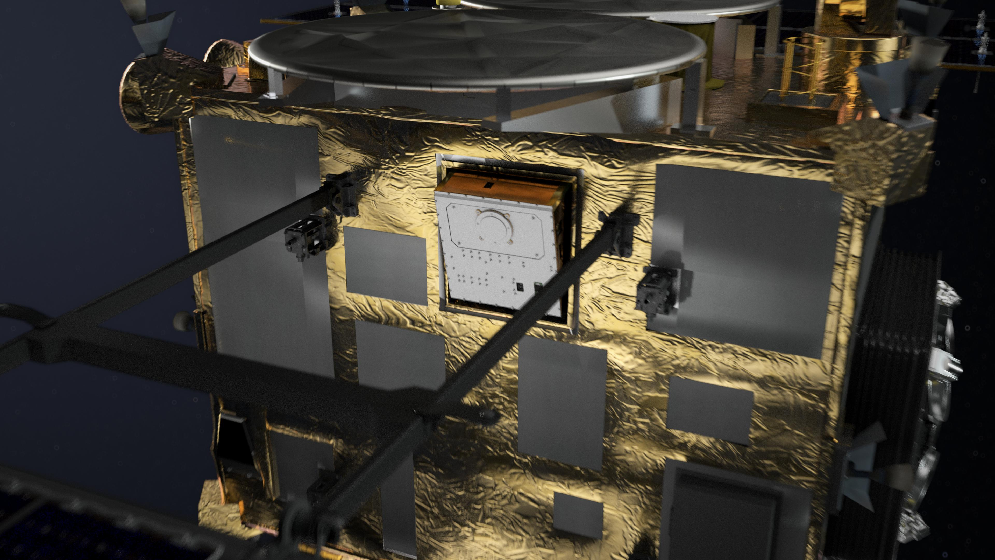 Closeup rendering of the MASCOT lander attached to the side of JAXA's Hayabusa2 probe